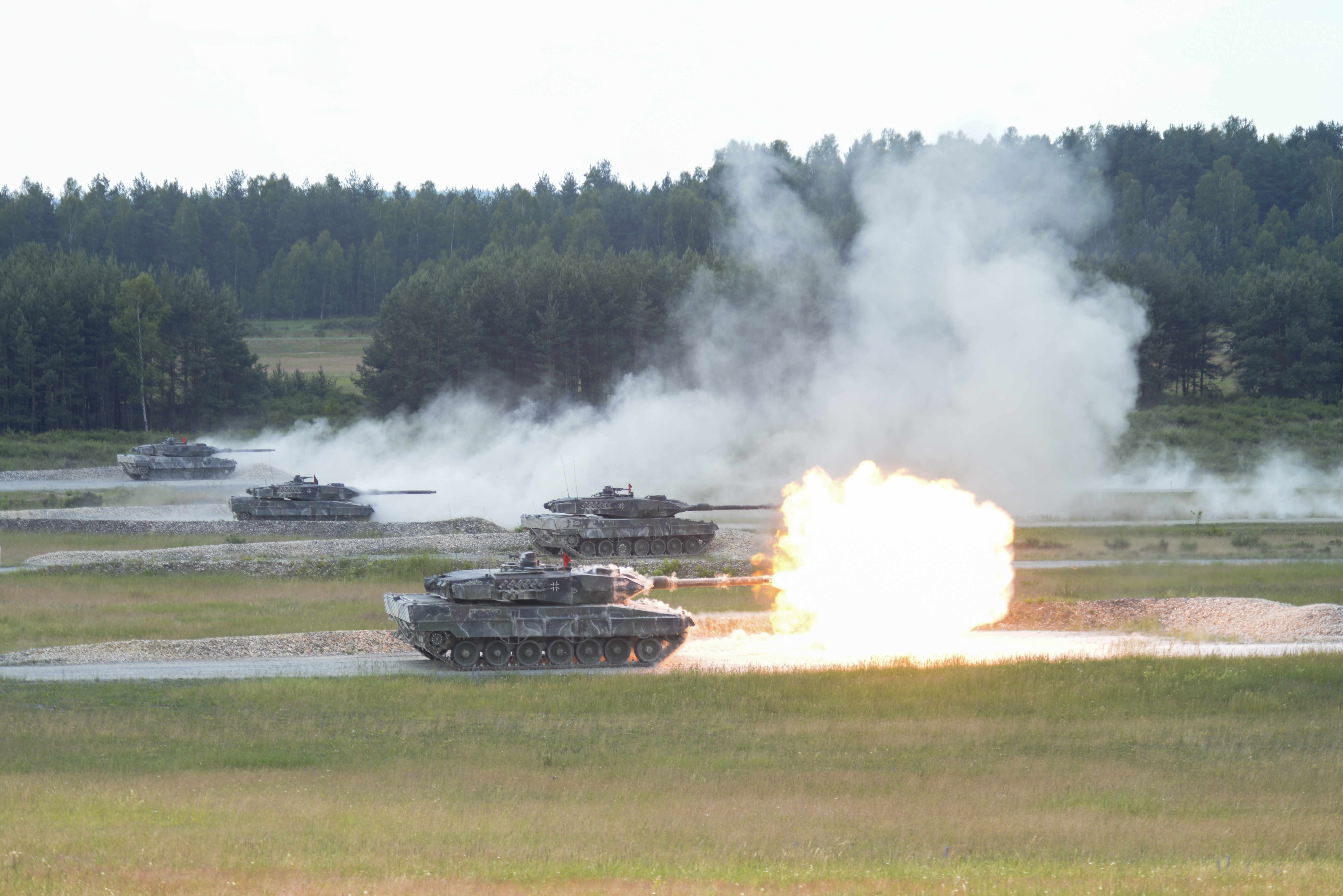 A German Leopard 2A6 from 3rd Panzer Battalion fires it's main gun during the shoot-off of Strong Europe Tank Challenge. U.S. Army Europe and the German Army co-host the third Strong Europe Tank Challenge at Grafenwoehr Training Area, June 3 - 8, 2018. The Strong Europe Tank Challenge is an annual training event designed to give participating nations a dynamic, productive and fun environment in which to foster military partnerships, form Soldier-level relationships, and share tactics, techniques and procedures. ( U.S. Army Photo by Kevin S. Abel)